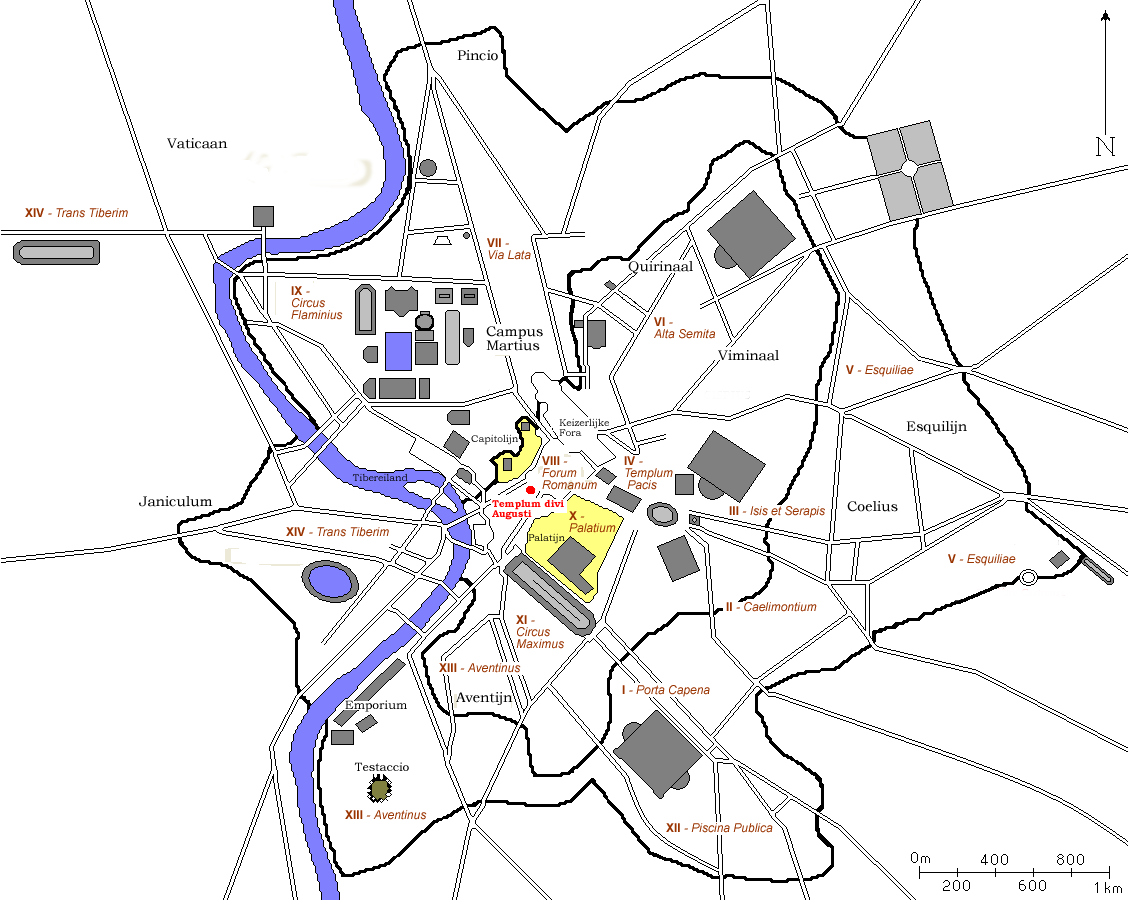 Likely location of the Temple of divus Augus on a map of ancient Rome